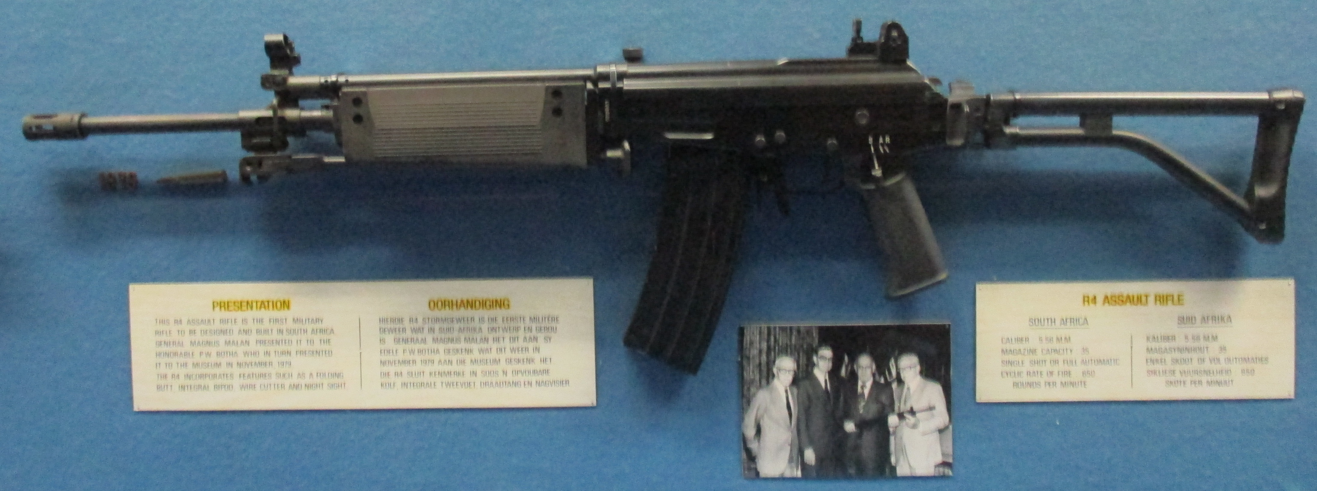 Description: South African-manufactured rifle at the National Museum of Military History, Johannesburg. 2014. There are 4 primary points and 15 detail points (19 total). Subject is an early model 5.56mm R-4, a licenced copy of the Galil developed by Armscor of South Africa.